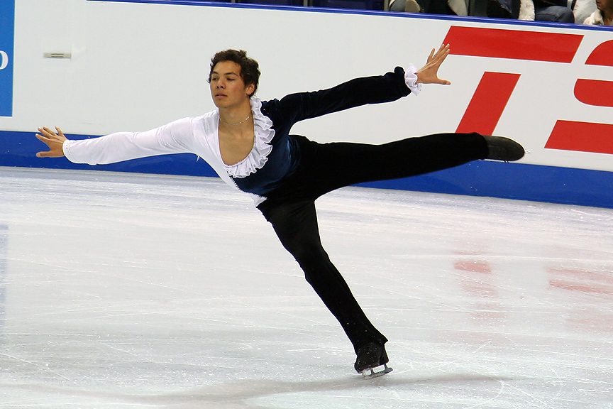 Jamal Othman lands a jump in his short program at the 2006 Skate Canada International.